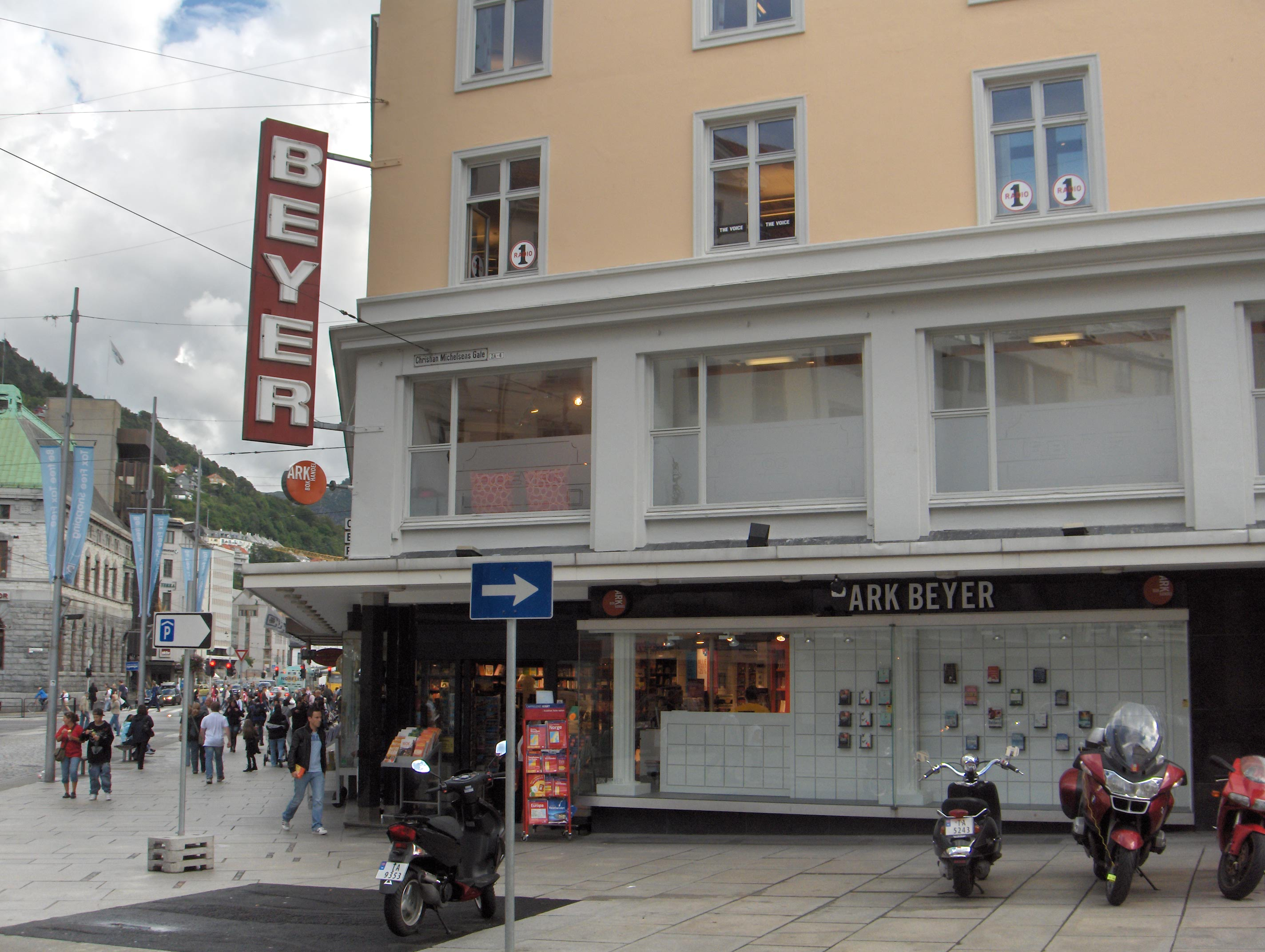 Ark Beyer bookstore in Bergen, Norway. The oldest bookstore in Norway.